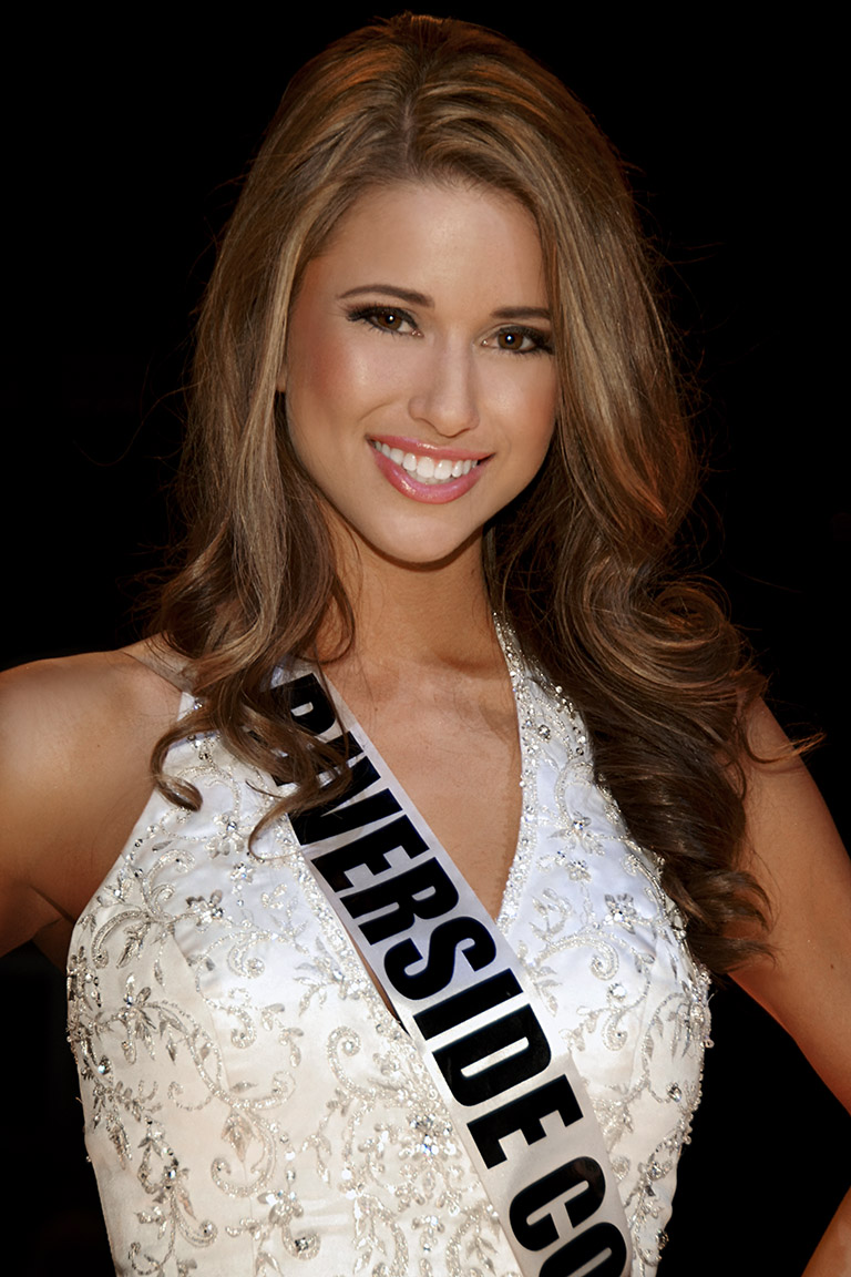 Nia Sanchez, Rancho Mirage, California on November 21, 2010 - Photo by Glenn Francis of